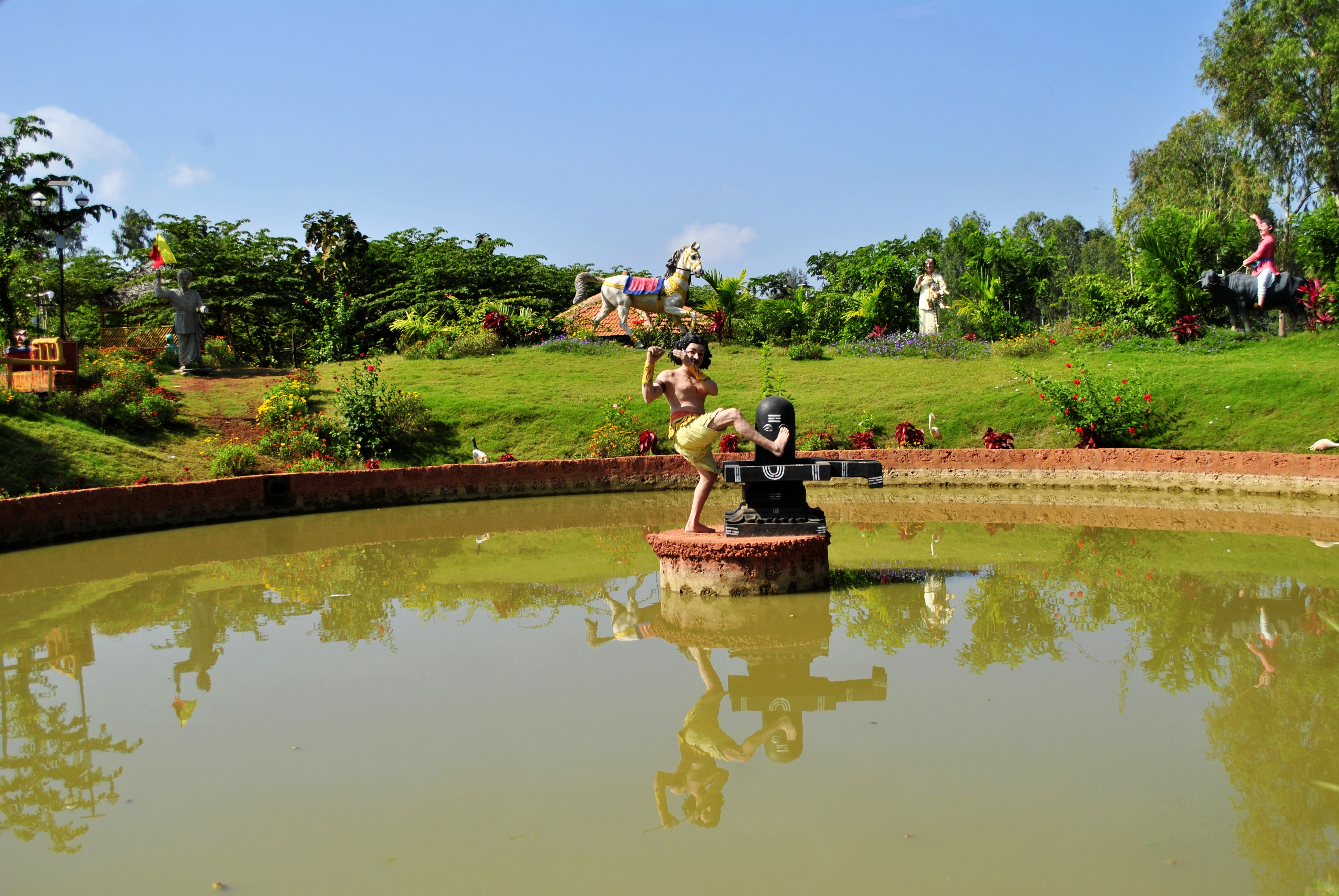 Sculptures of Famous South Indian Actor Dr. Rajkumar which depicts his many famous and renowned film shots of his career